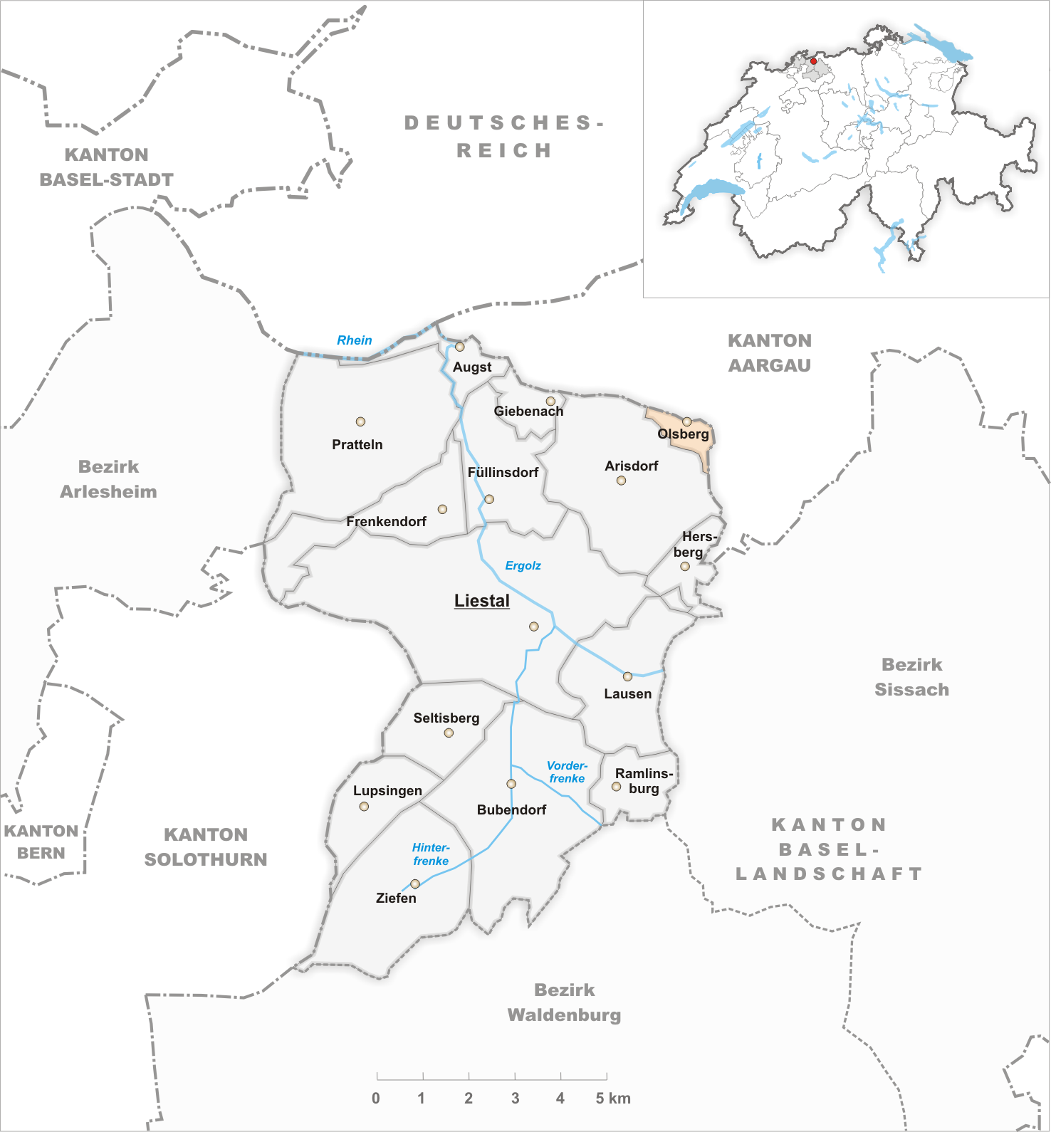 Municipality Olsberg Artist: Tschubby